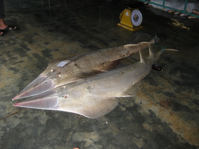 Glaucostegus granulatus